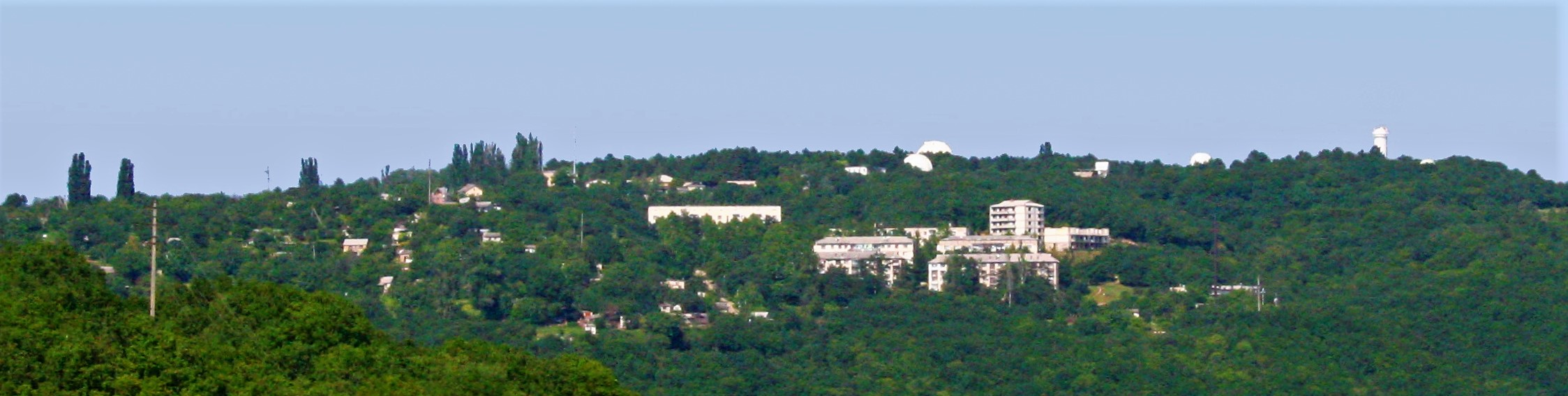 A view to the Crimean Astrophysical Observatory and Nauchnij from the nearable place clled "Скалы" ("The Rocks"). Observatory domes seen above the line of horizon are (from left to right) 2.6m ZTSH telescope, 1.25m AZT-11 telescope, and BST-1 Solar telescope. This digital image was taken on July, 23rd 2006 by Kirill Sokolovsky. (c) Kirill Sokolovsky aka Kirx 11:19, 20 August 2006 (UTC)